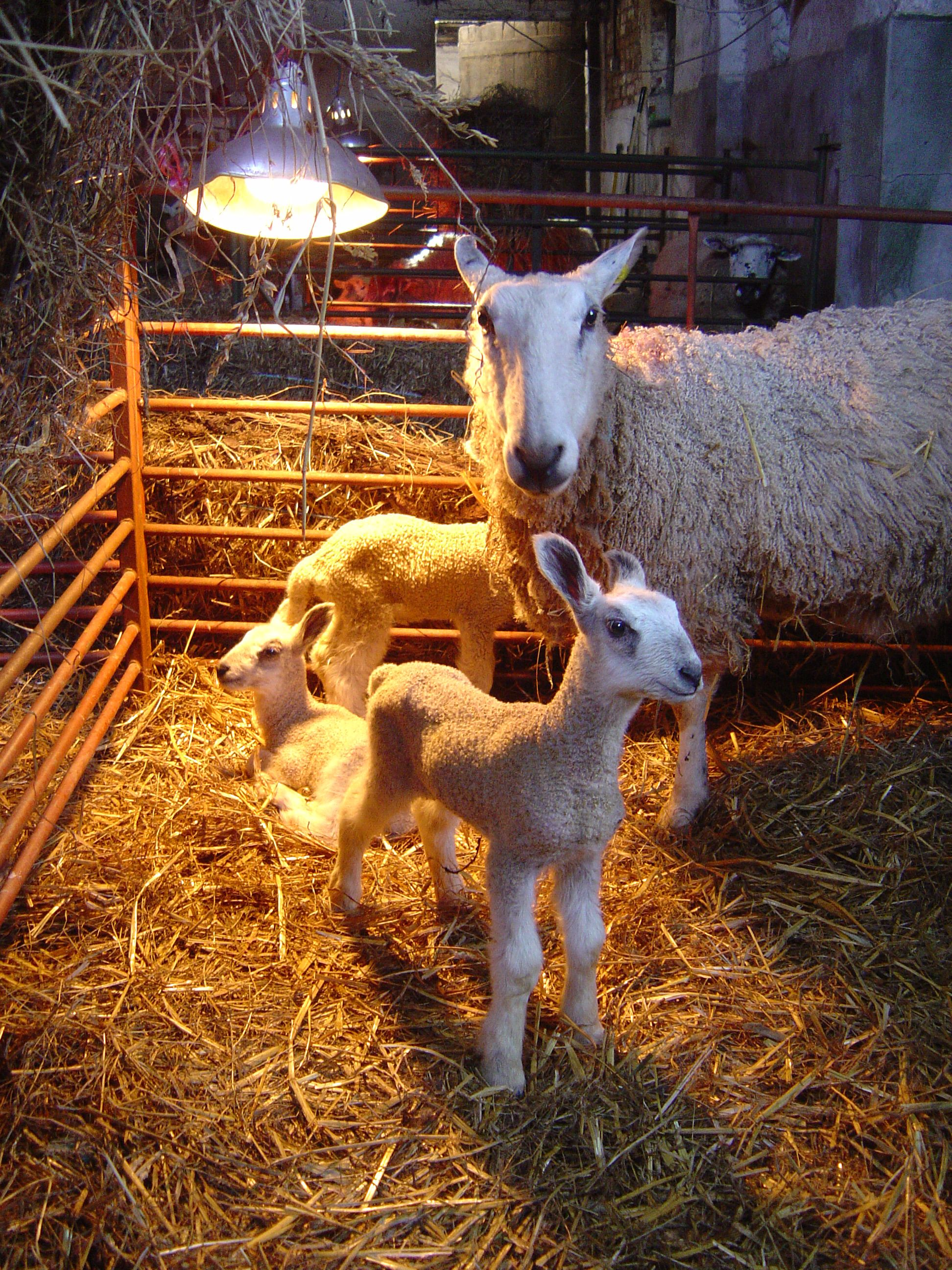 A Bluefaced Leicester ewe and her triplets in a lambing pen